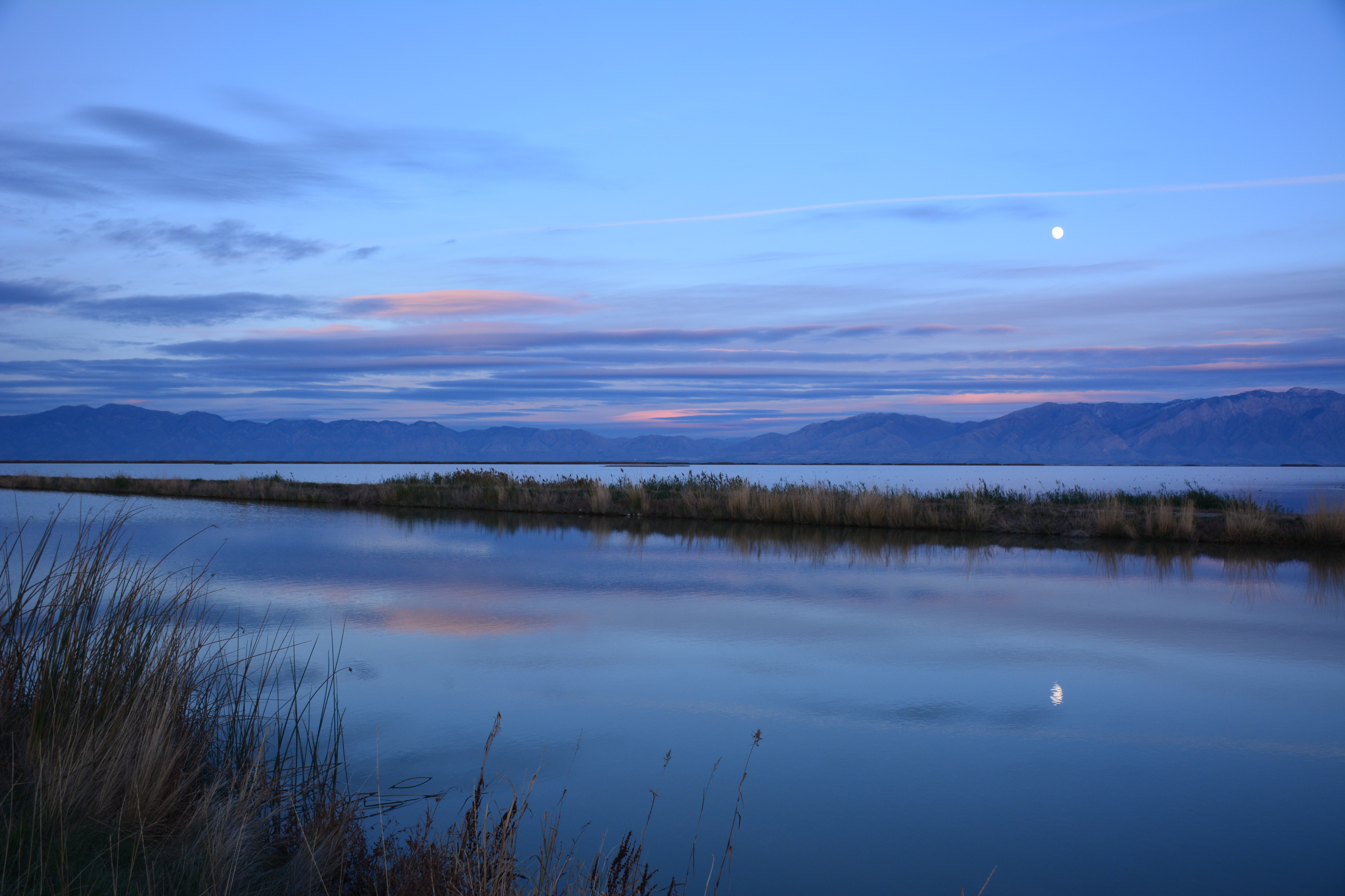 Category: Landscape - 3rd place Photo Credit: R. Welker